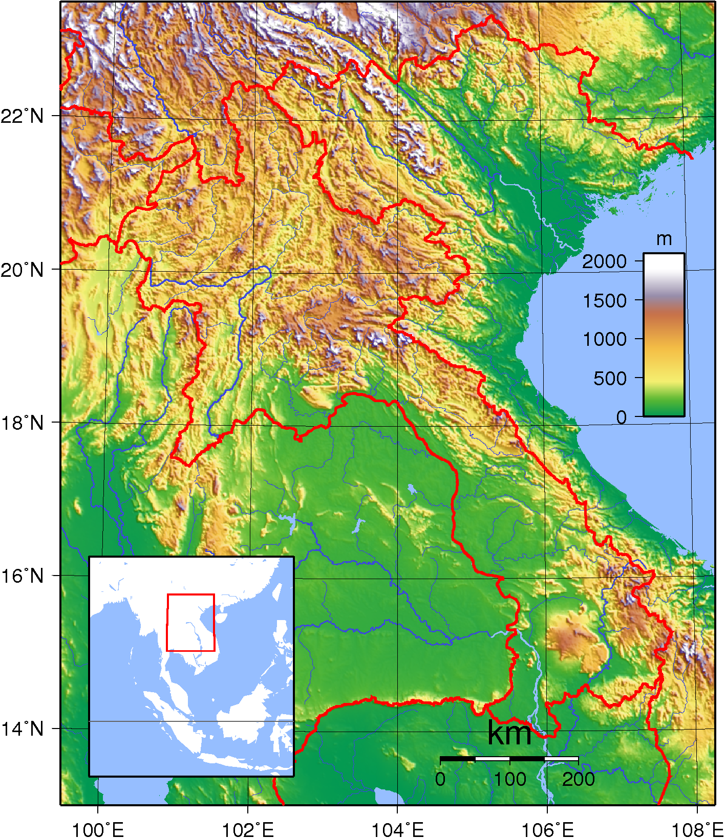 Topographic map of Laos. Created with GMT from publicly released GLOBE data.[1]